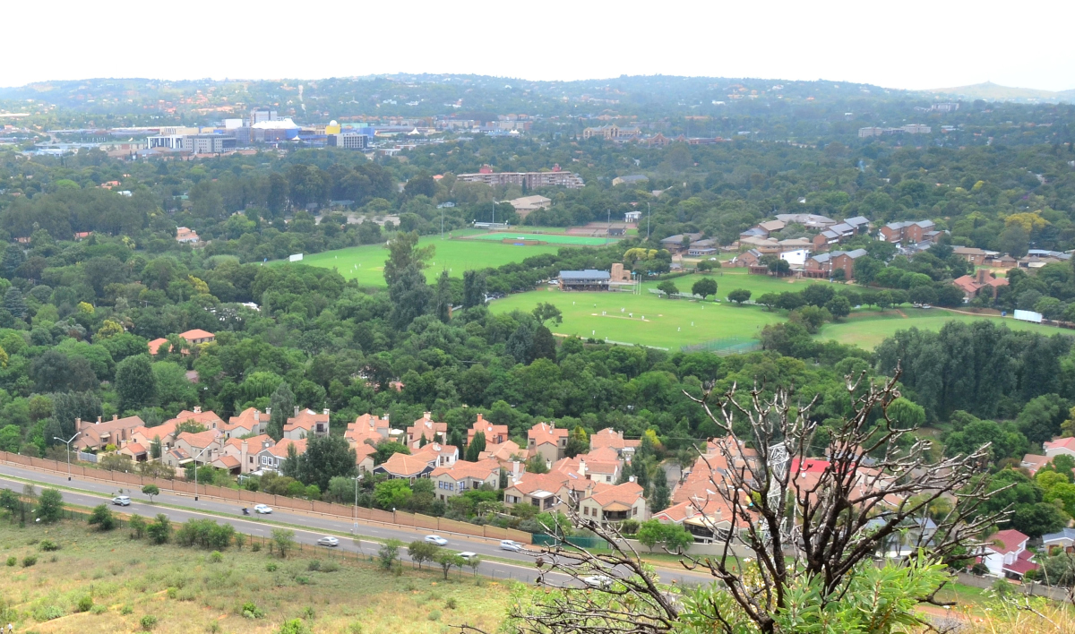 Lynnwood Glen, a suburb in Pretoria, as seen from a hill in the Faerie Glen Nature Reserve. The sports fields of St. Alban's College is visible in the photo and Menlyn Park Shopping Center can be seen in the background.